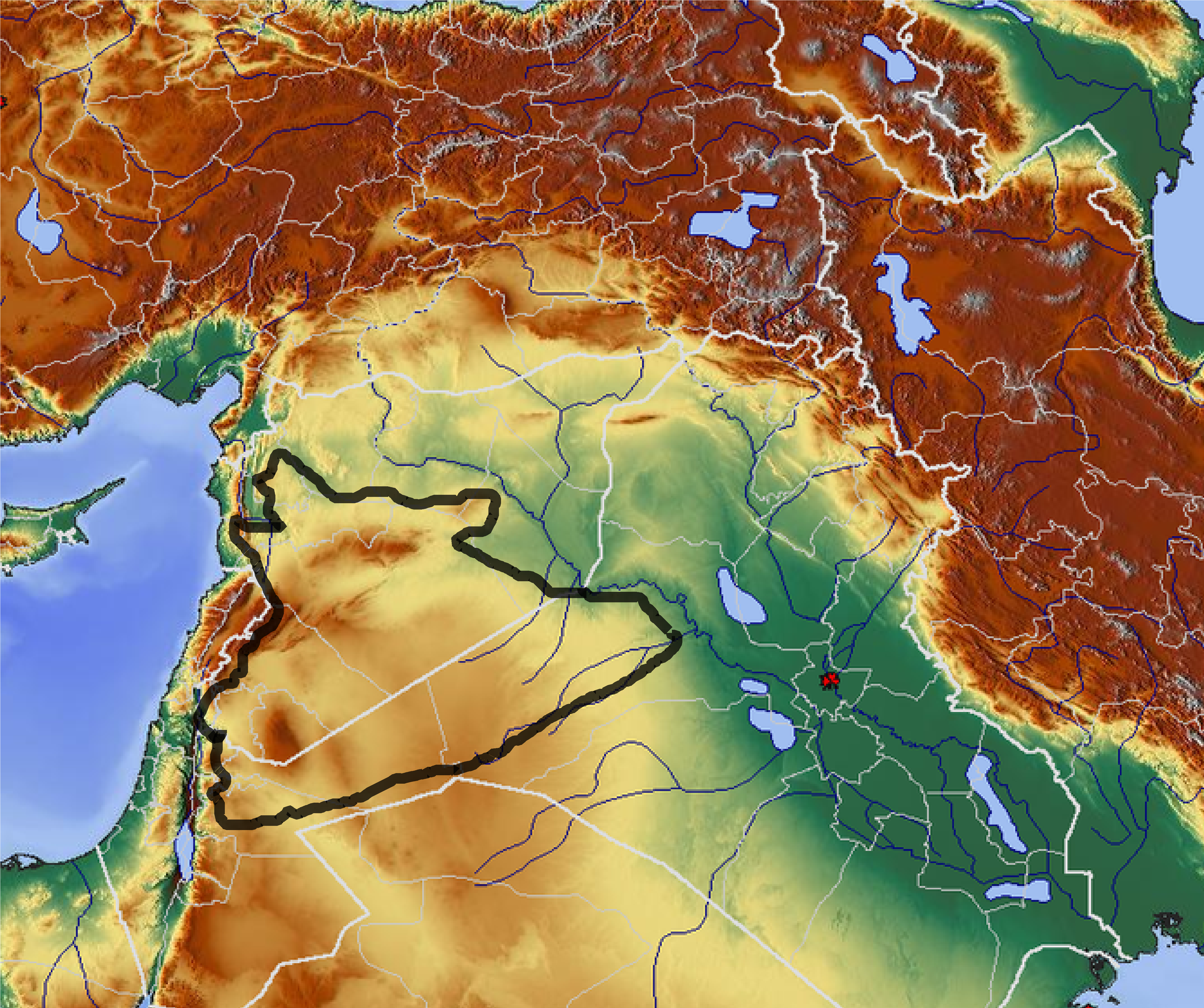 Geographical location of the Syrian desert